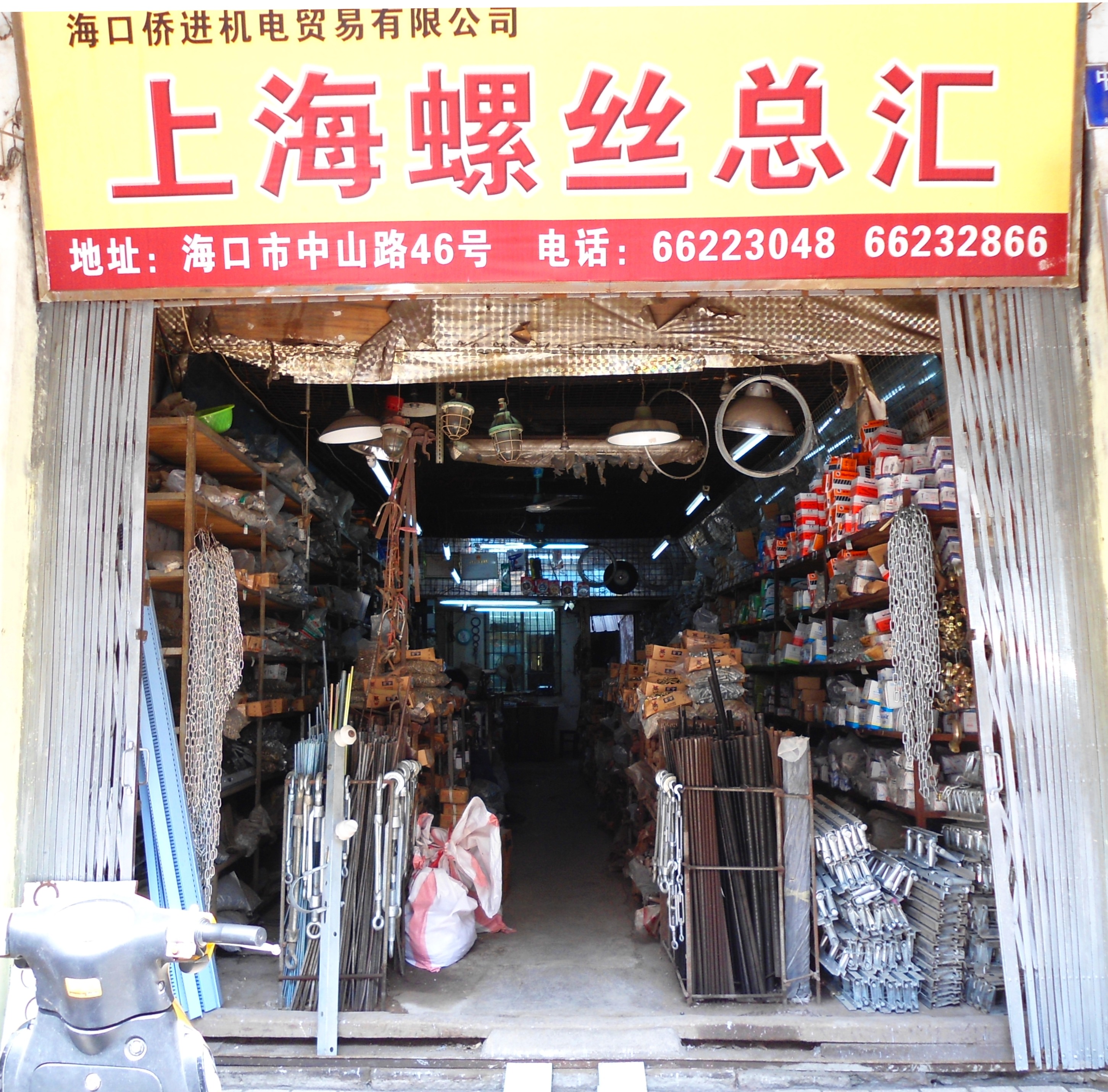 Hardware store in China specializing in chain, couplings, lifting hooks, cutters, etc. in Haikou, Hainan Province, People's Republic of China